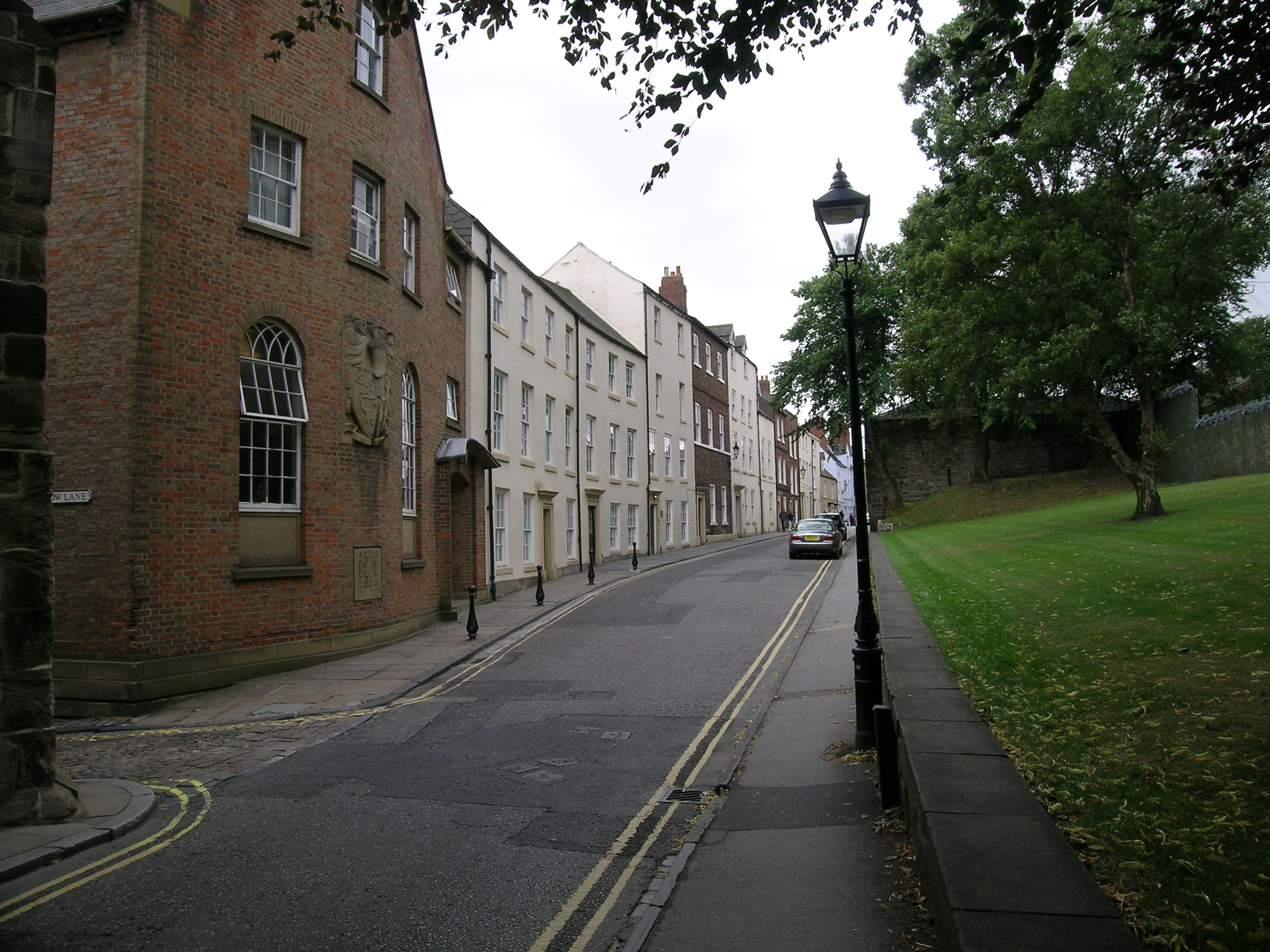 Main buildings, St Chad's College, Durham University, England